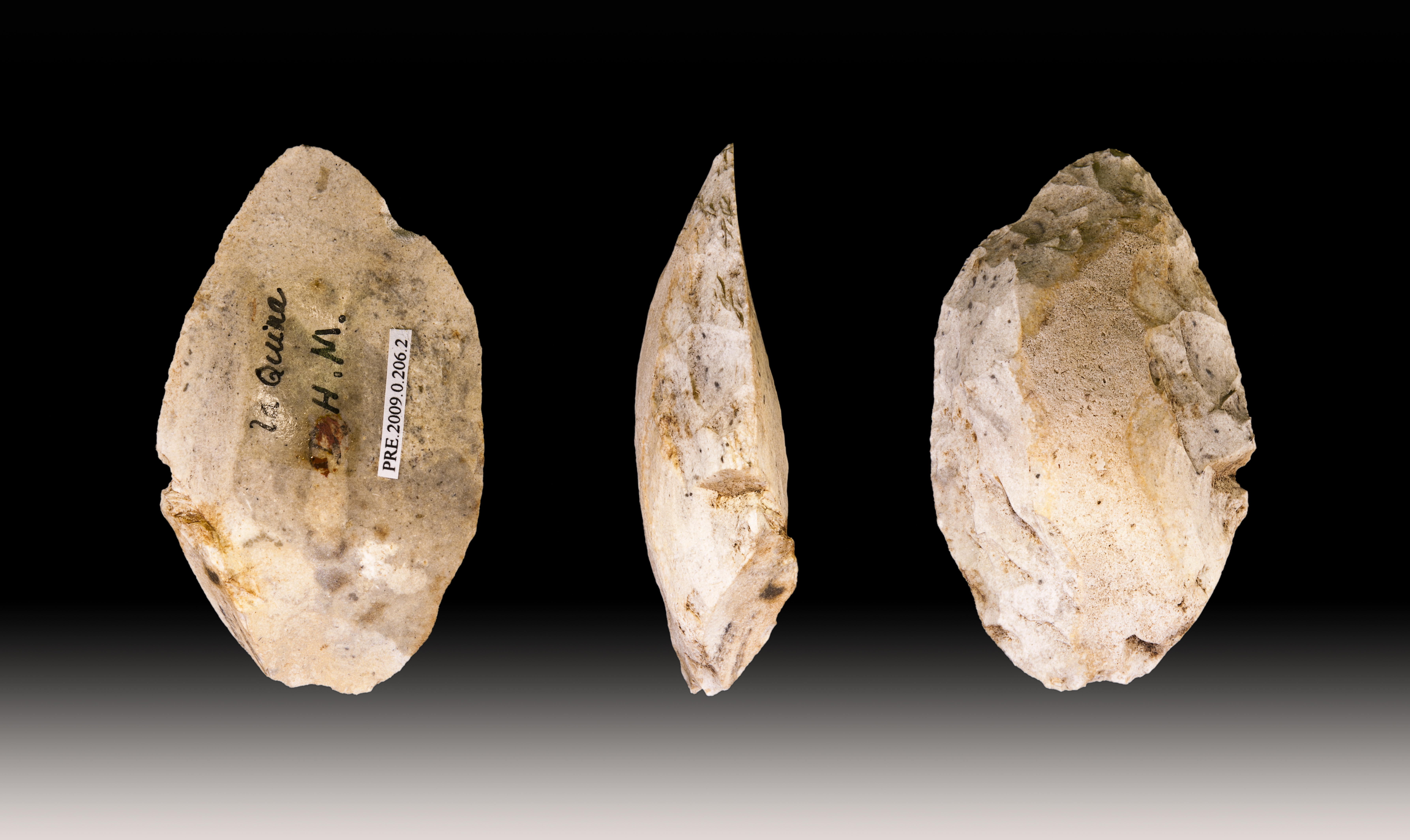 Racloir - Different views of the same specimen.